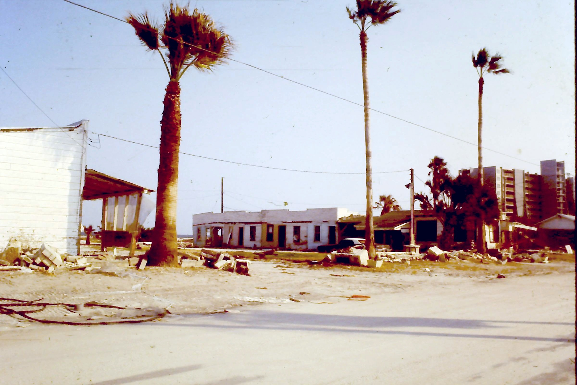 Corpus Christi TX Ruins after Hurricane Allen 1980. Pictures taken on Corpus Christi Beach a few weeks after Hurricane Allen landed. Most of the structures in these photos were damaged beyond repair and had to be demolished.